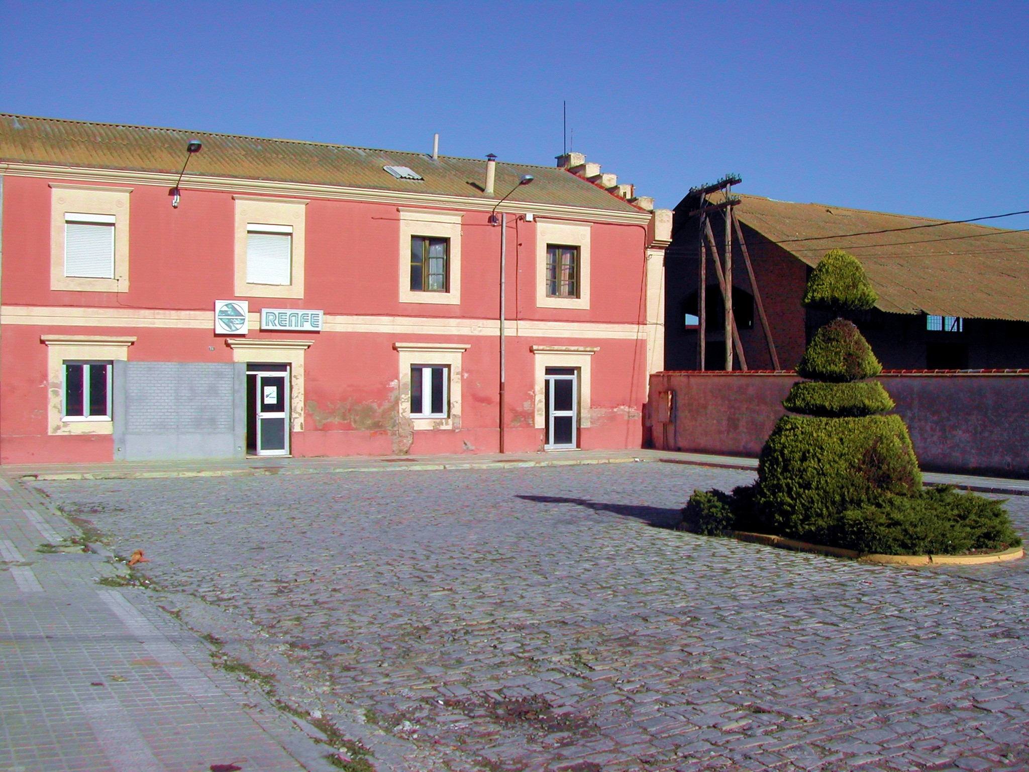 Bellpuig station building seen from the square.